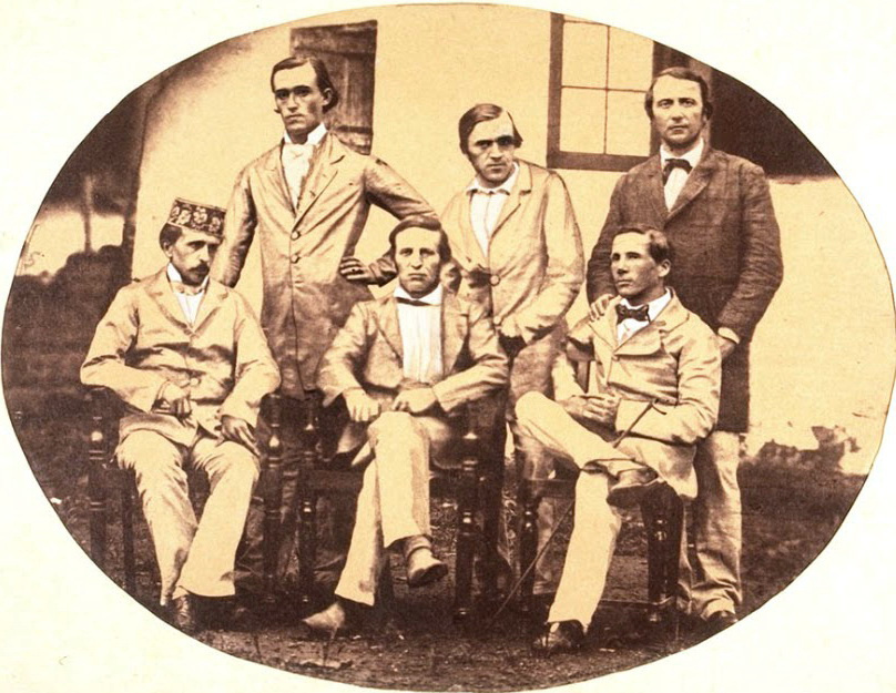 "Balmatha missionaries, Mangalore. - Huber, Finkh, Plebst, Hunziker, Bührer, Pfeiderer." Johann Jakob Hunziker (1831-1923) leftmost in back row